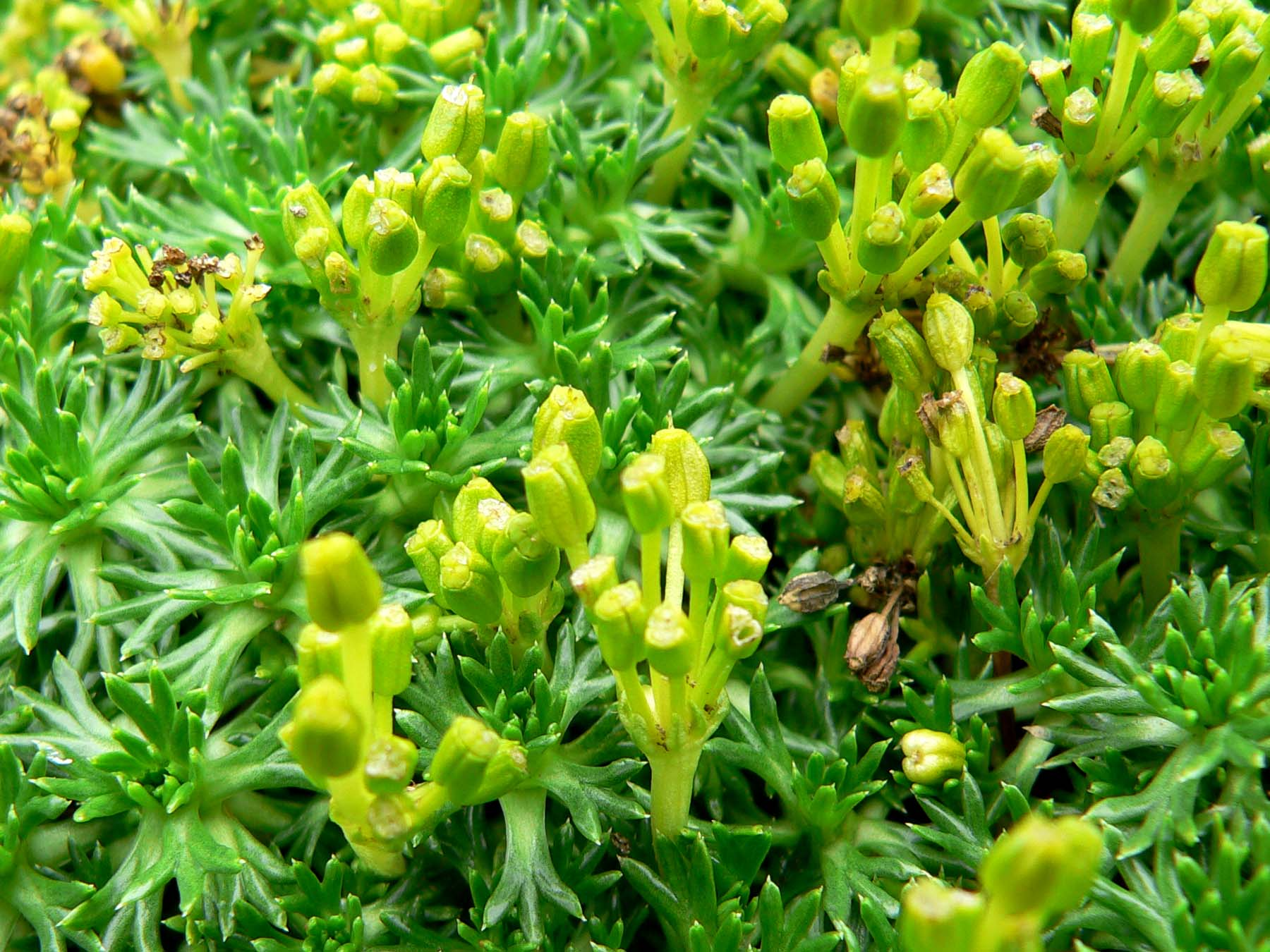 Photo of Bolax gummifera at the UBC Botanical Garden